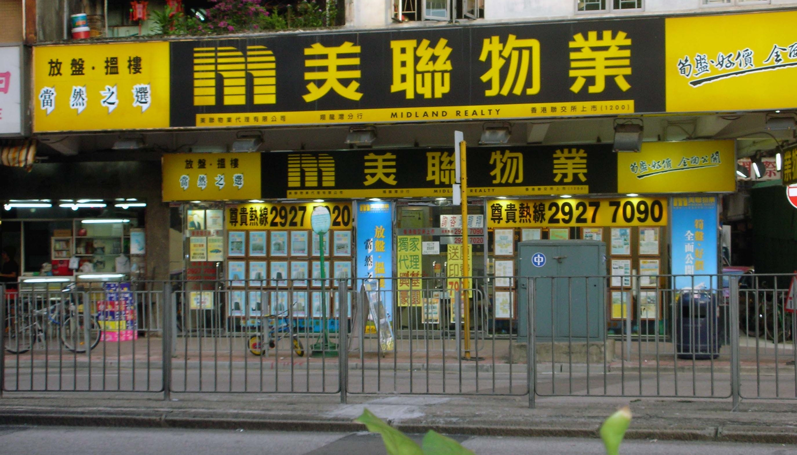 An outlet of Midland Realty, located at To Kwa Wan, Hong Kong